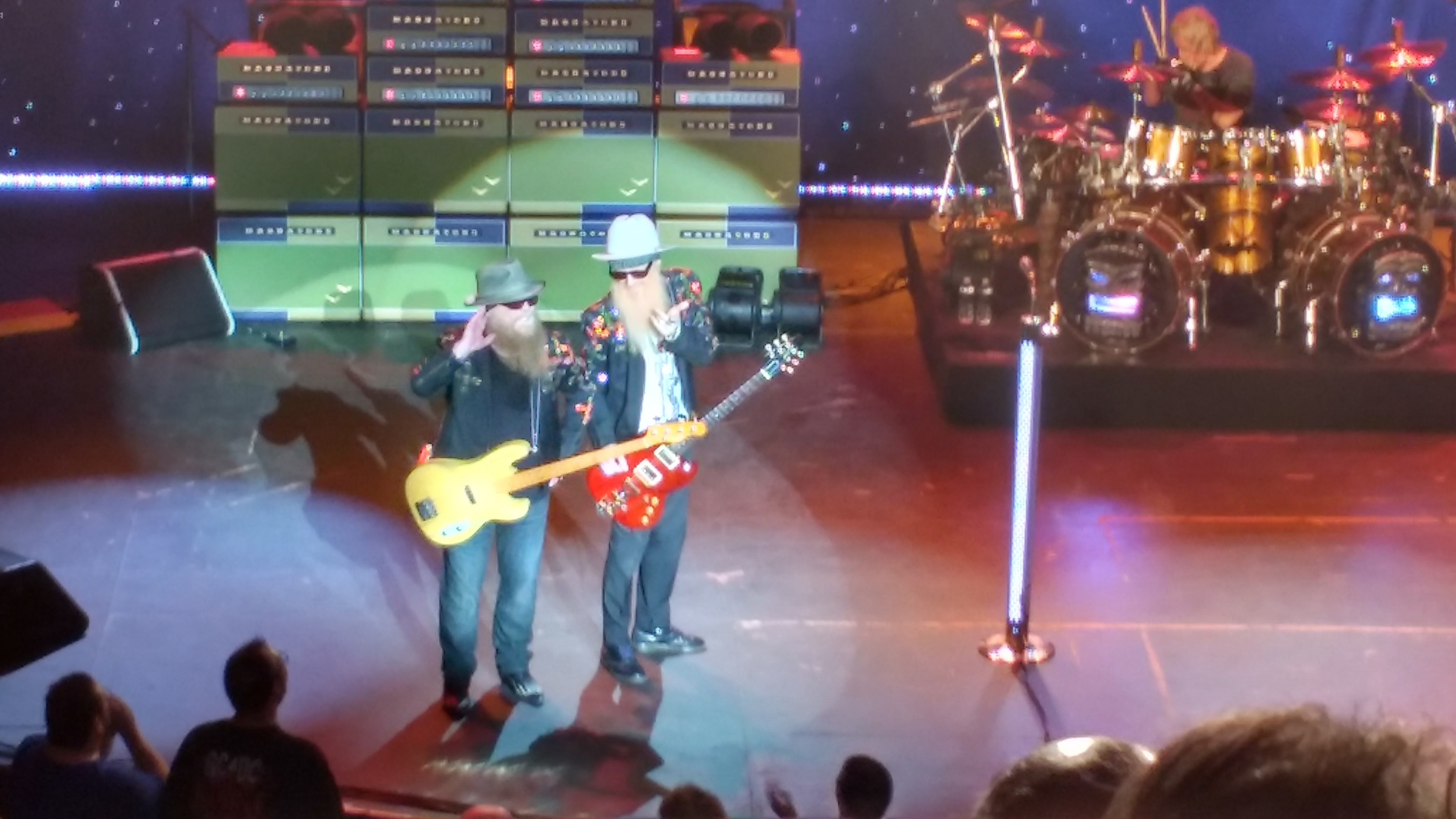 ZZ Top playing in September 2016.